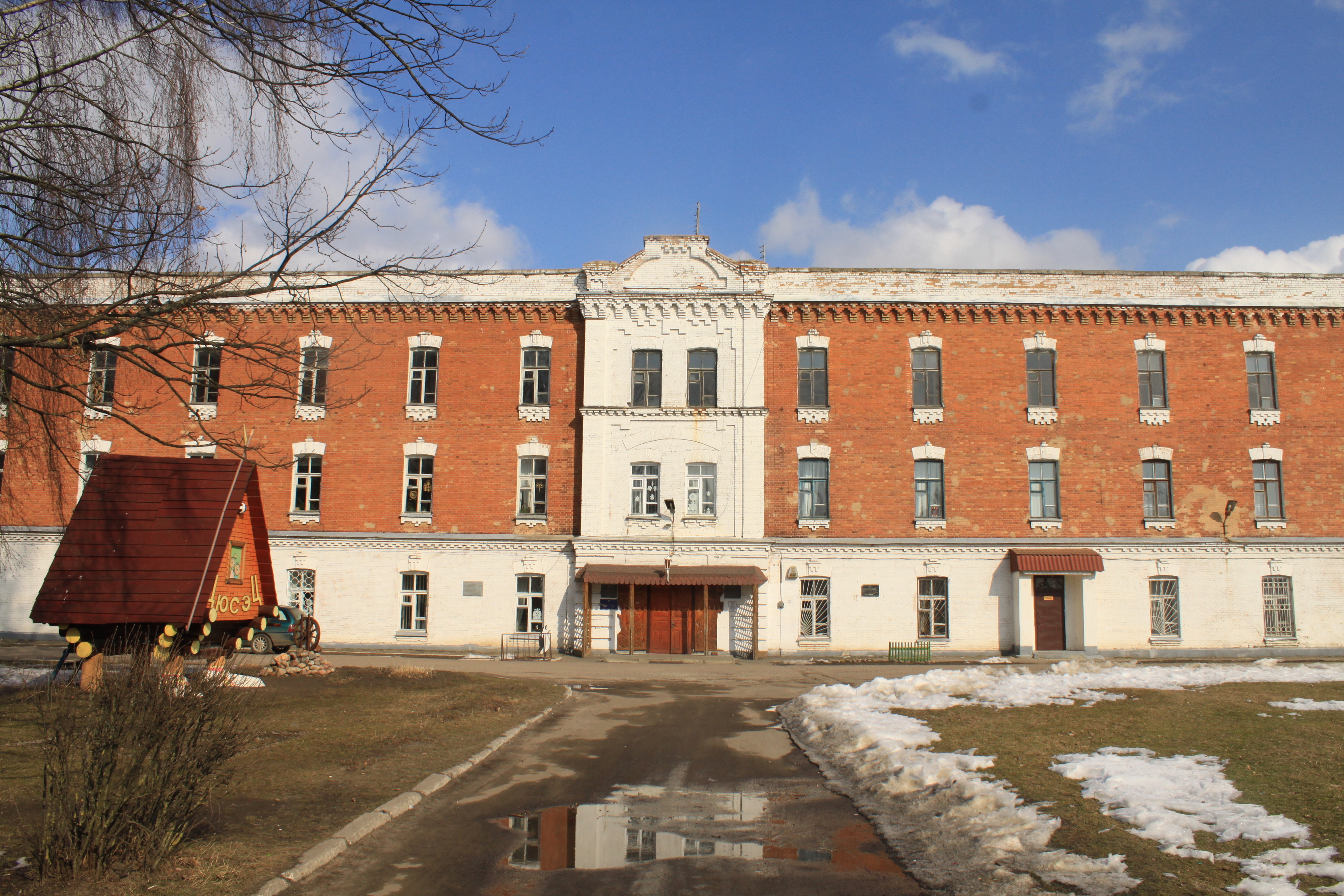 Former building of the Bereza Kartuska prison Беларуская (тарашкевіца): Былы будынак вязьніцы ў Бярозе-Картускай